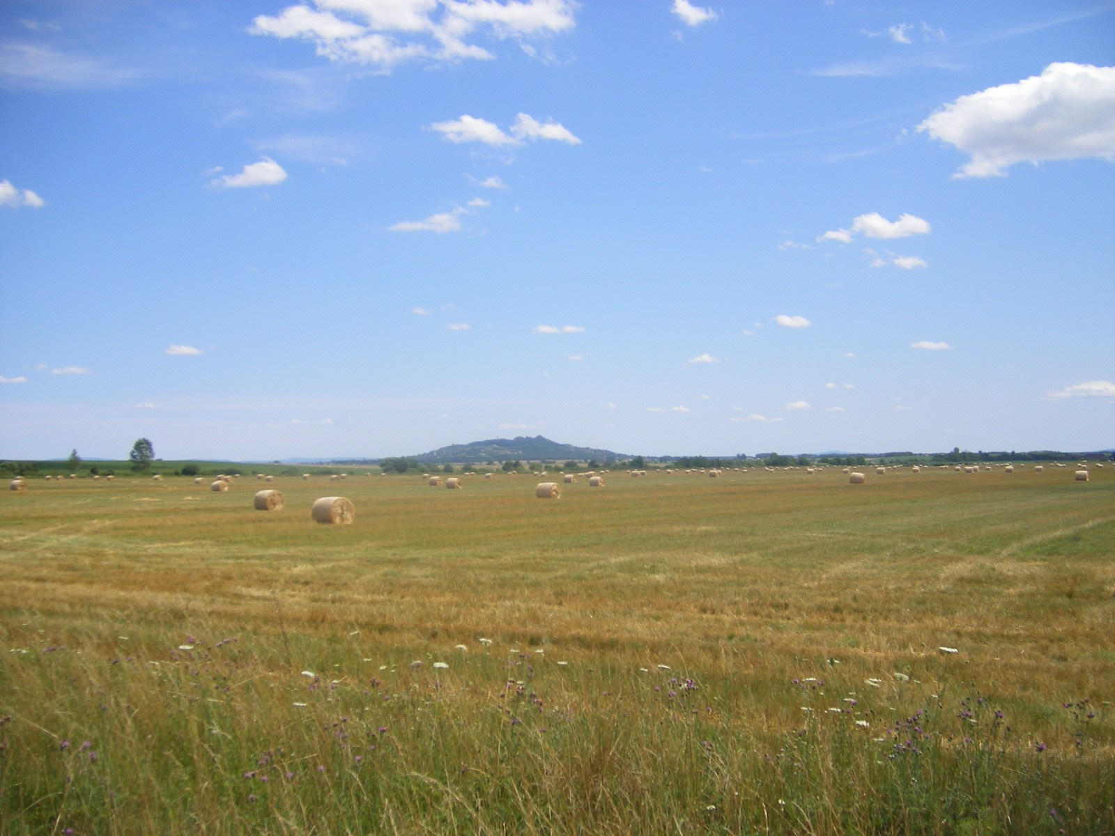 Great scenery and Simonyi Sitke between the background Ság (Google translate)